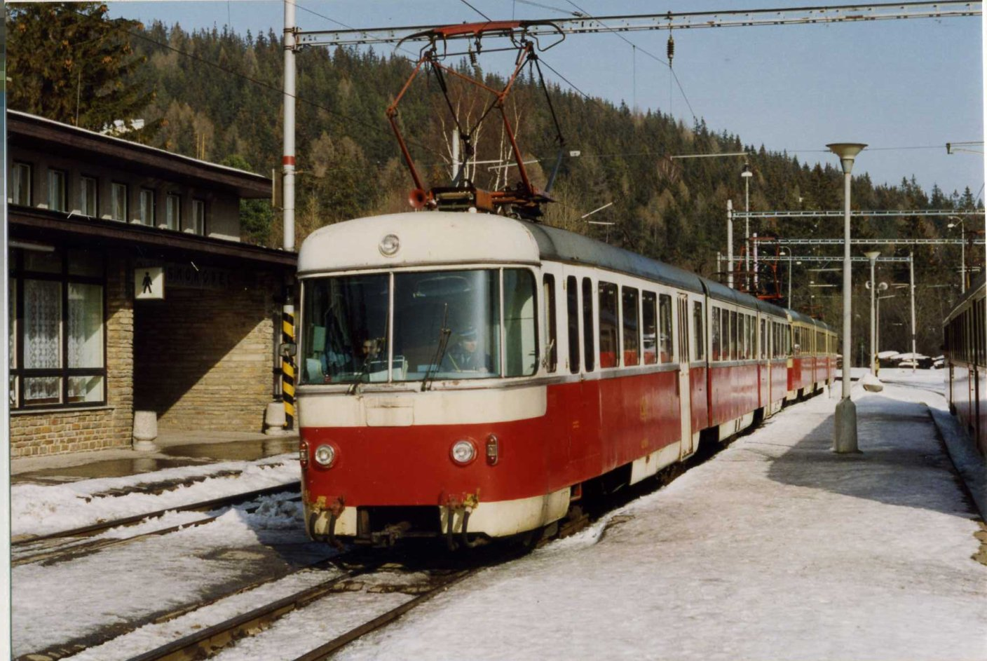 Class 420.95 electric multiple unit in Starý Smokoves, Slovakia